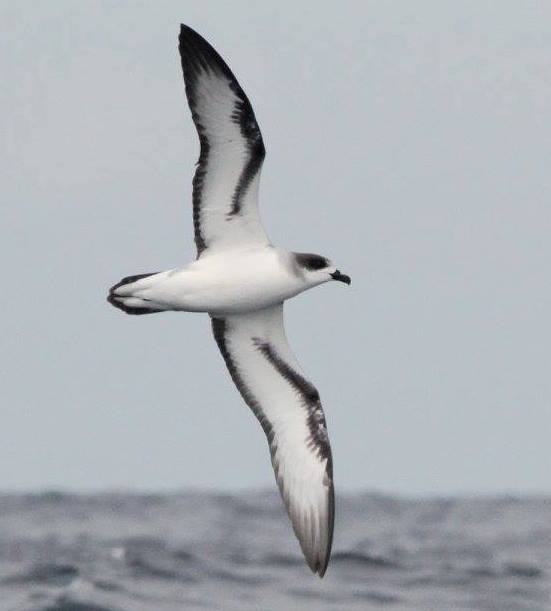 Barau's petrel photographed off Durban, South Africa